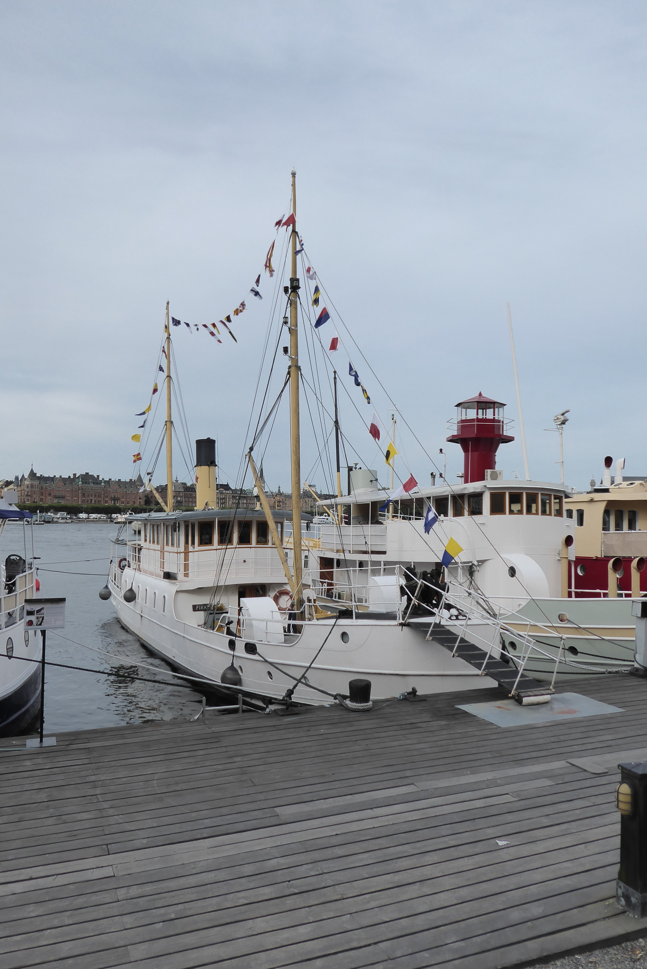 M/S Stjernorp ankrad vid Brobänken på Skeppsholmen, Stockholm